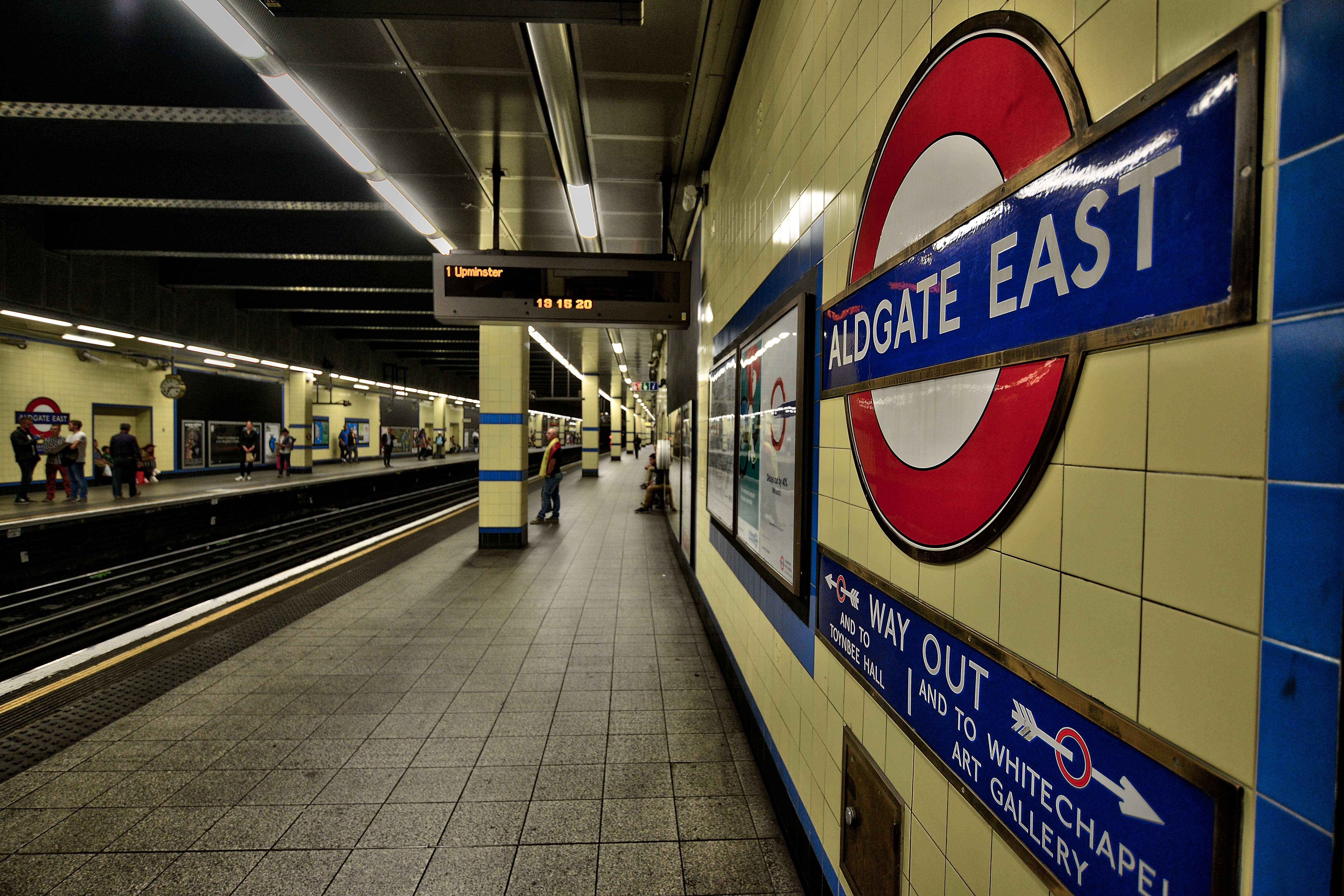 District Line - Aldgate East station